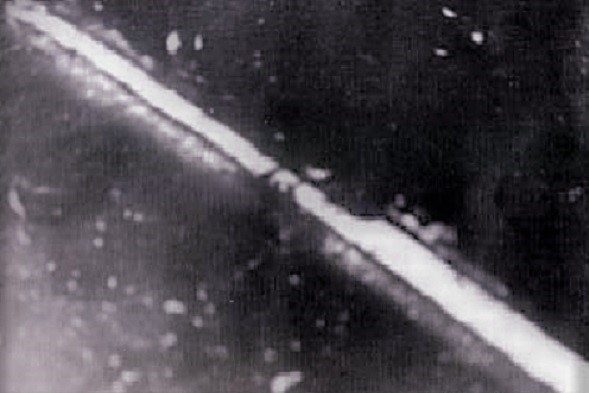 Wreckage of the destroyer HMS Mohawk, torpedoed and sunk by the Italian destroyer Luca Tarigo in action off Sfax, on 16 April 2019. Luca Tarigo, the Italian destroyer Baleno and five Axis merchant ships were also lost in the battle.